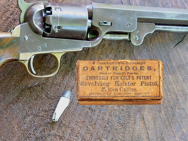 Self-consuming paper cartridges six to a box